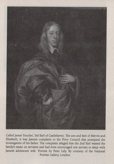 James Tuchet, 3rd Earl of Castlehaven (c1617-1684)